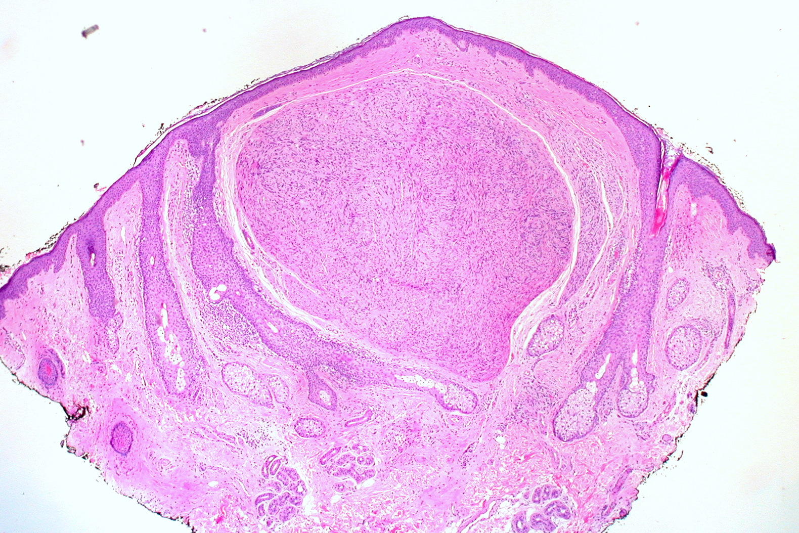 Palisaded and Encapsulated Neuroma Pathological and histological images courtesy of Ed Uthman at flickr.